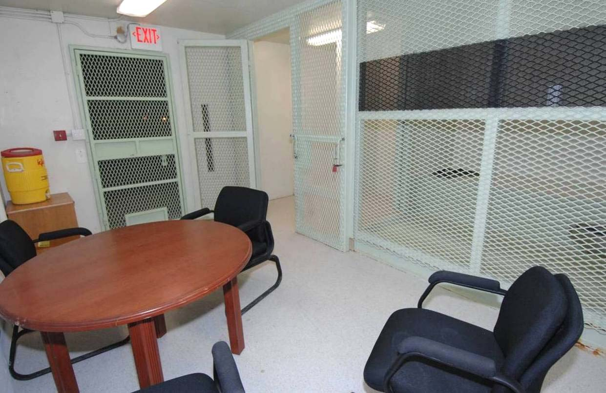 Camp echo interview room.